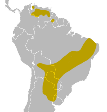 Range map of the White-naped xenopsaris (in yellow).